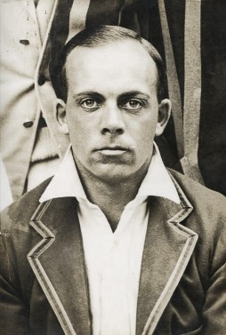 Portrait of Bob Wyatt from BDV Cigarette Card series of 1932–33 Test cricketers. Published in 1932; rear of this card in available here.